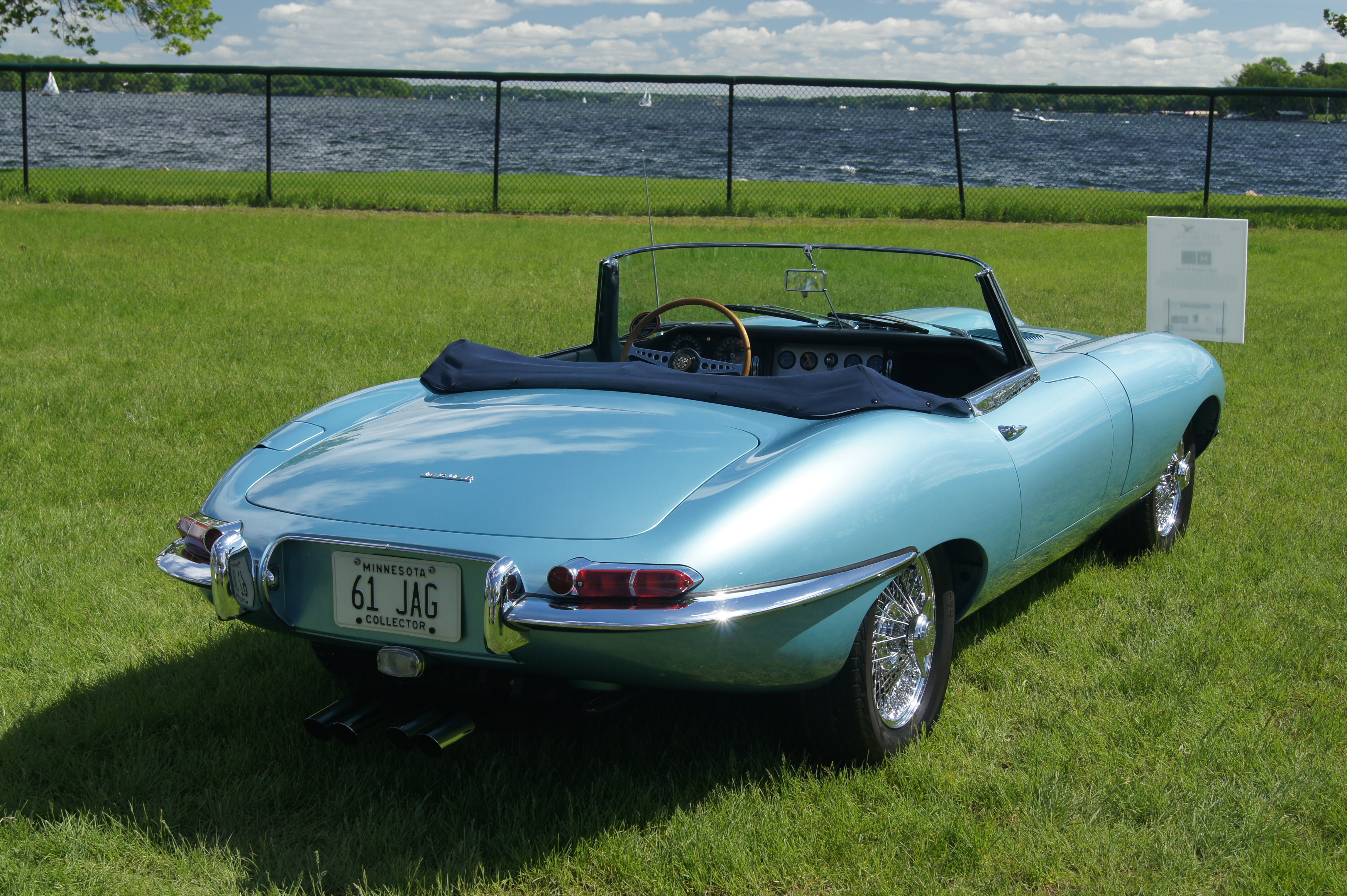 61 Jaguar E-Type